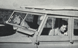 Mara on the way to the orphange. This photograph was taken in Africa by Douglas Grindlay in 1965; both subjects and author are deceased. A copy of this image appeared in Irene's biographical account of Mara's early years titled Velvet Paws, 1966. As the original was taken from the family album, On behalf of the surviving family members, thank you.